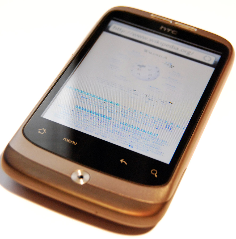 HTC Wildfire Phone, colour mocca